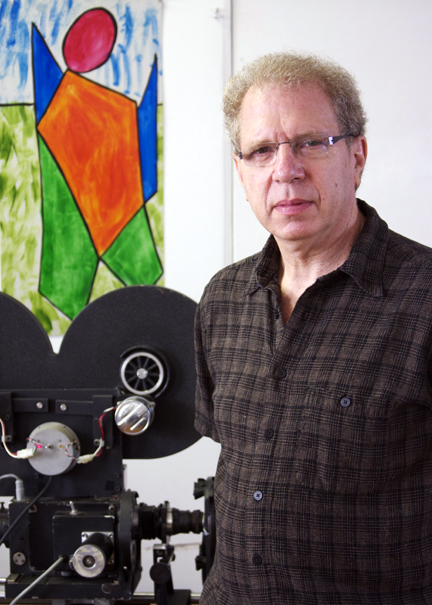 Experimental filmmaker and video artist, Bill Brand.